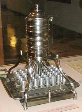 The original communion wine dispenser invented by Rev John G. Thomas. That was first tested at Vaughnsville Congregational Church. Exhibited at Allen County Museum, Lima, Ohio.